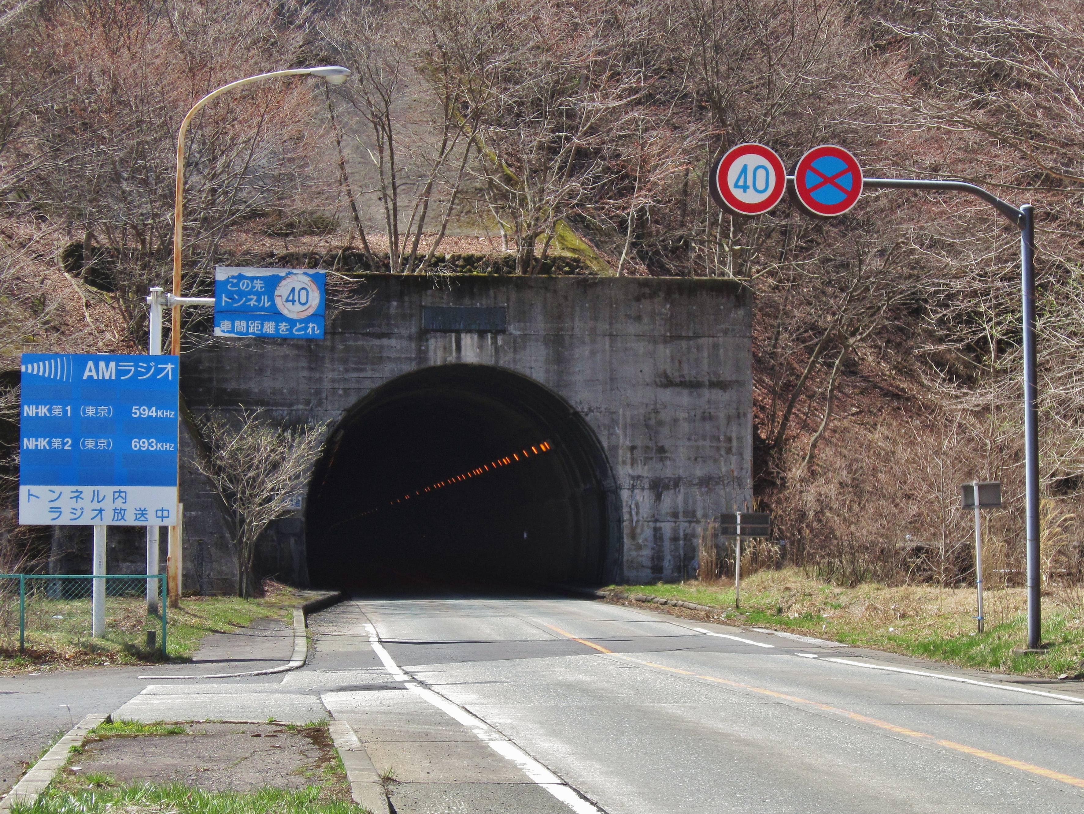 Uchiyama Tunnel east.